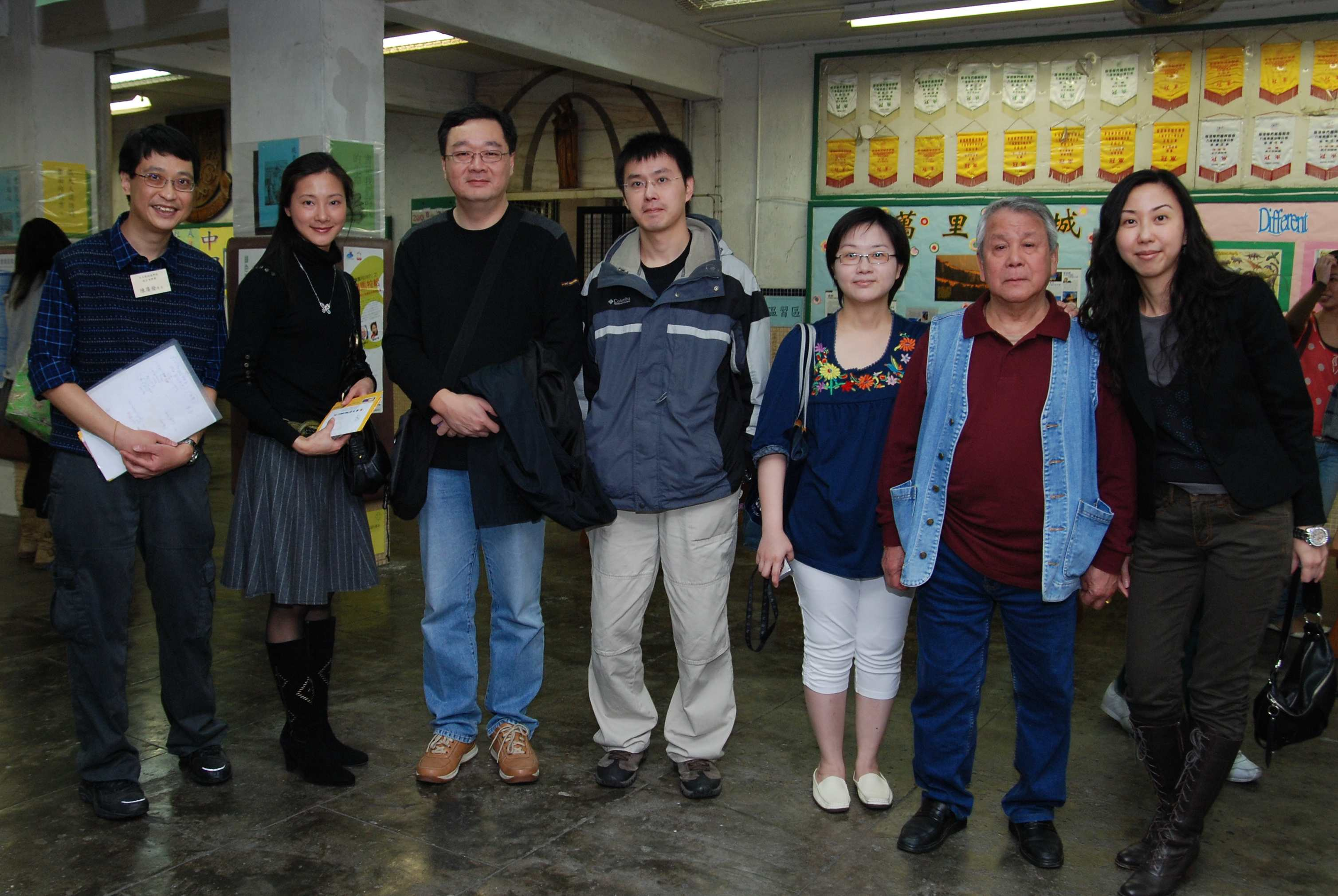 Ms Ho Kai Lai with siblings and alumni in BPMS